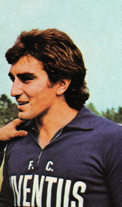 Turin (Italy), Combi Ground, circa 1974. Italian footballer Fernando Viola in training with Juventus F.C.